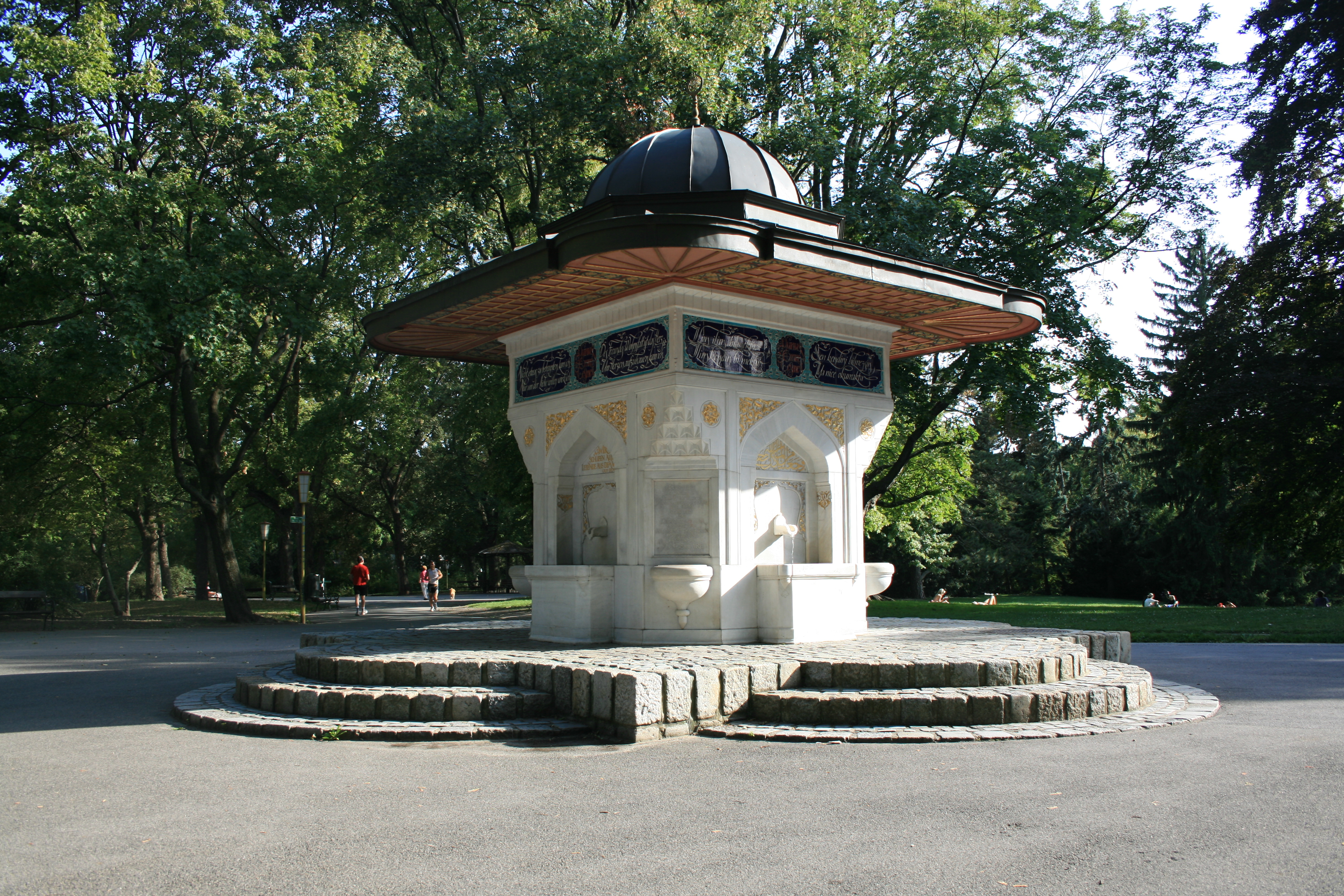 Yunus-Emre-Brunnen a Şadirvan in Wien Austria.